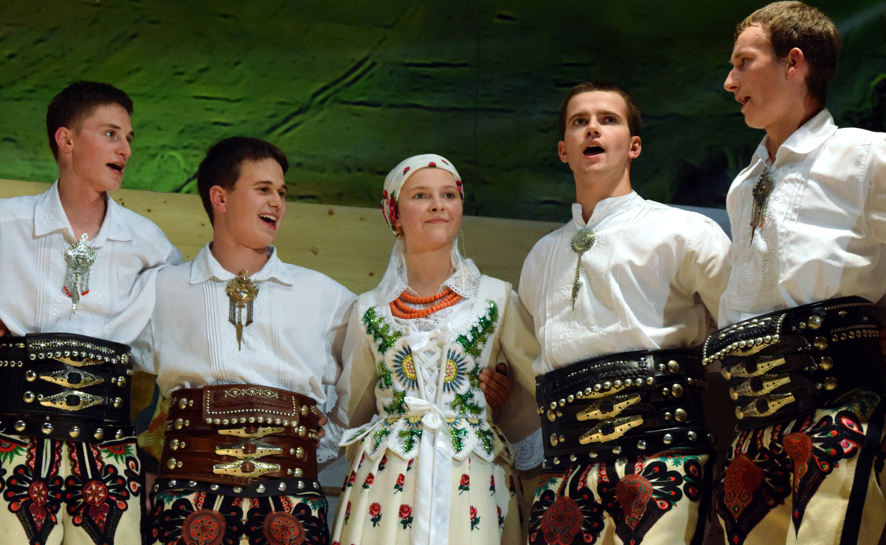 "Gorals' Wedding" folk performance at Dom Ludowy Theatre in Bukowina Tatrzańska - bride and groom dancing